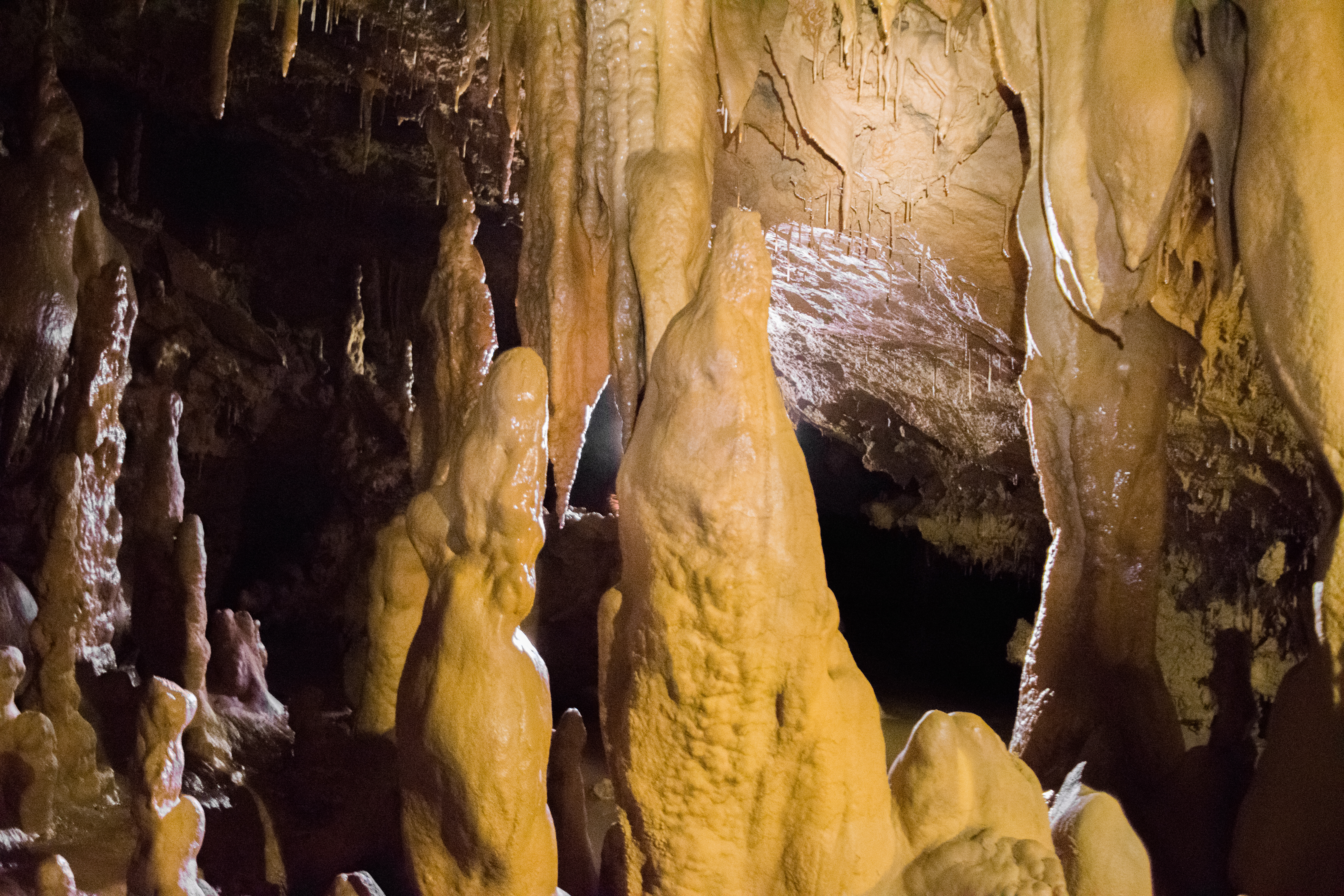 Speleothems (stalactites, stalagmites, soda straws, etc.) in Kawachi no Kaza-ana("Kawachi Wind Cave").